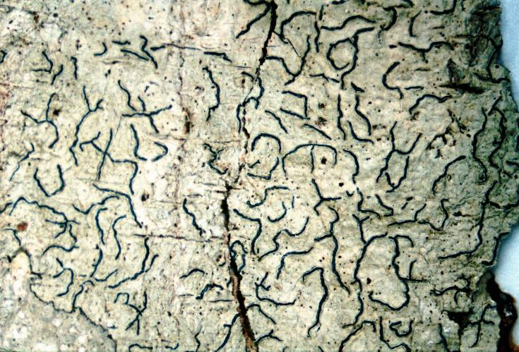 Graphis scripta (L.) Ach., 1809 (photograph of lirellae through a dissecting microscope, x6) Growing on tree bark in Baltimore County, Maryland, USA; collected and identified by Elmer G. Worthley (No. L-420); specimen is now in the Lichen Herbarium of the New York Botanical Garden.